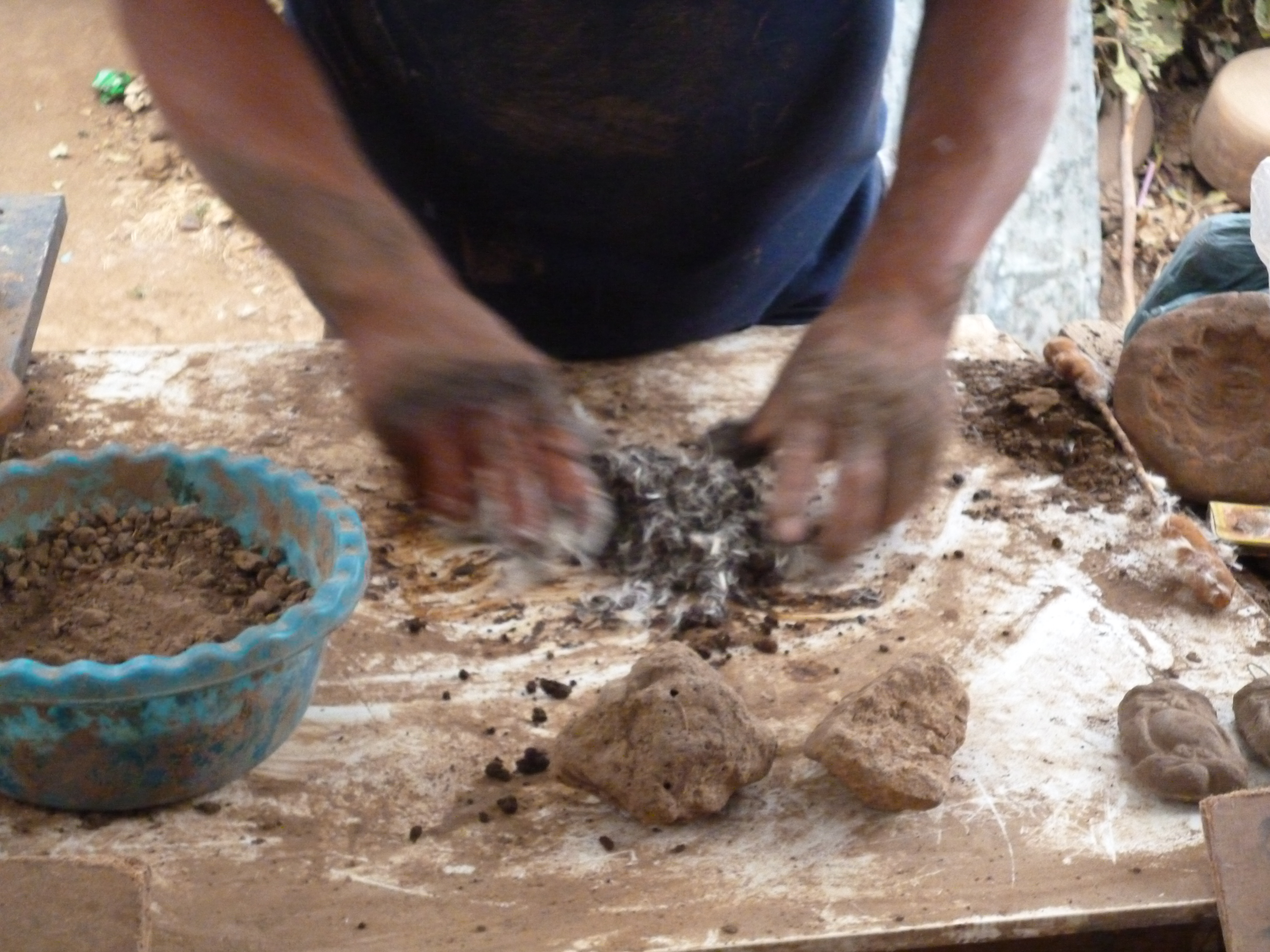 Demonstrating how clay is made in a pottery workshop in the village of Tlayacapan, Morelos, Mexico